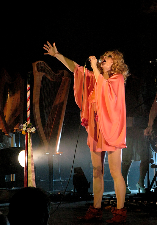 Goldfrapp at Royal Festival Hall, Friday 18th April 2008